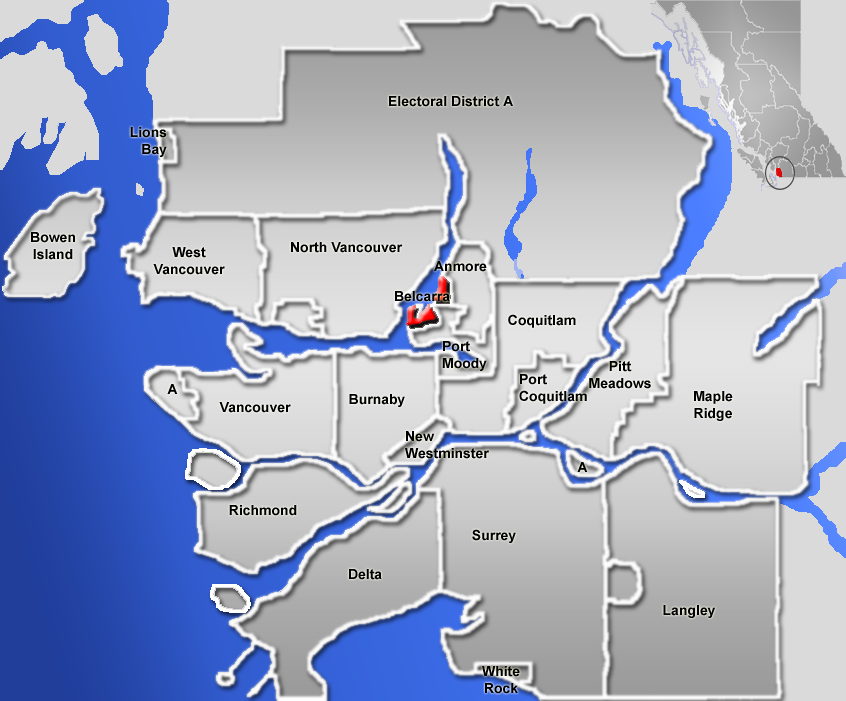 Location of Belcarra, Greater Vancouver Area, British Columbia